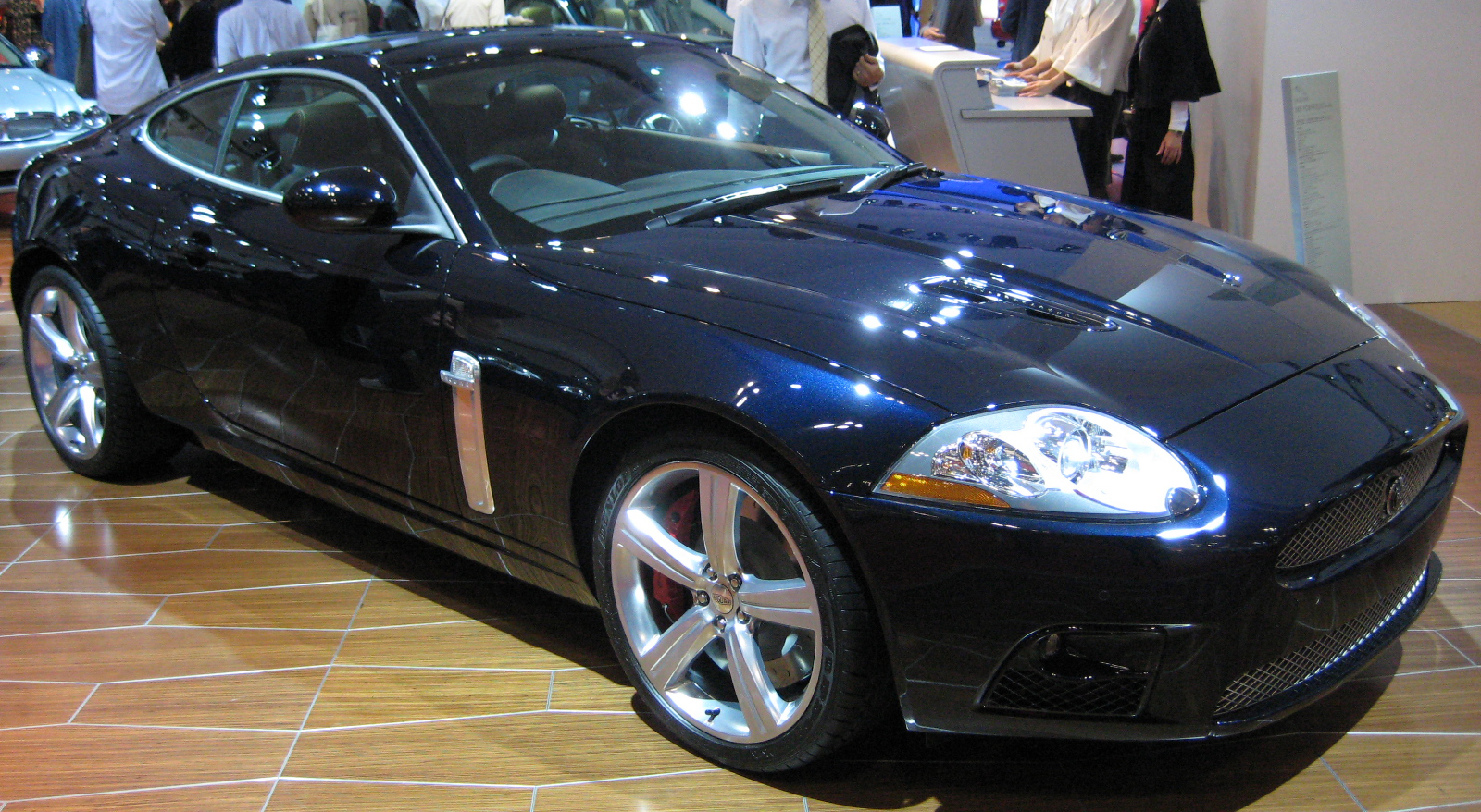 Jaguar XKR Portfolio (Limited Edition) in Tokyo Motor Show 2007